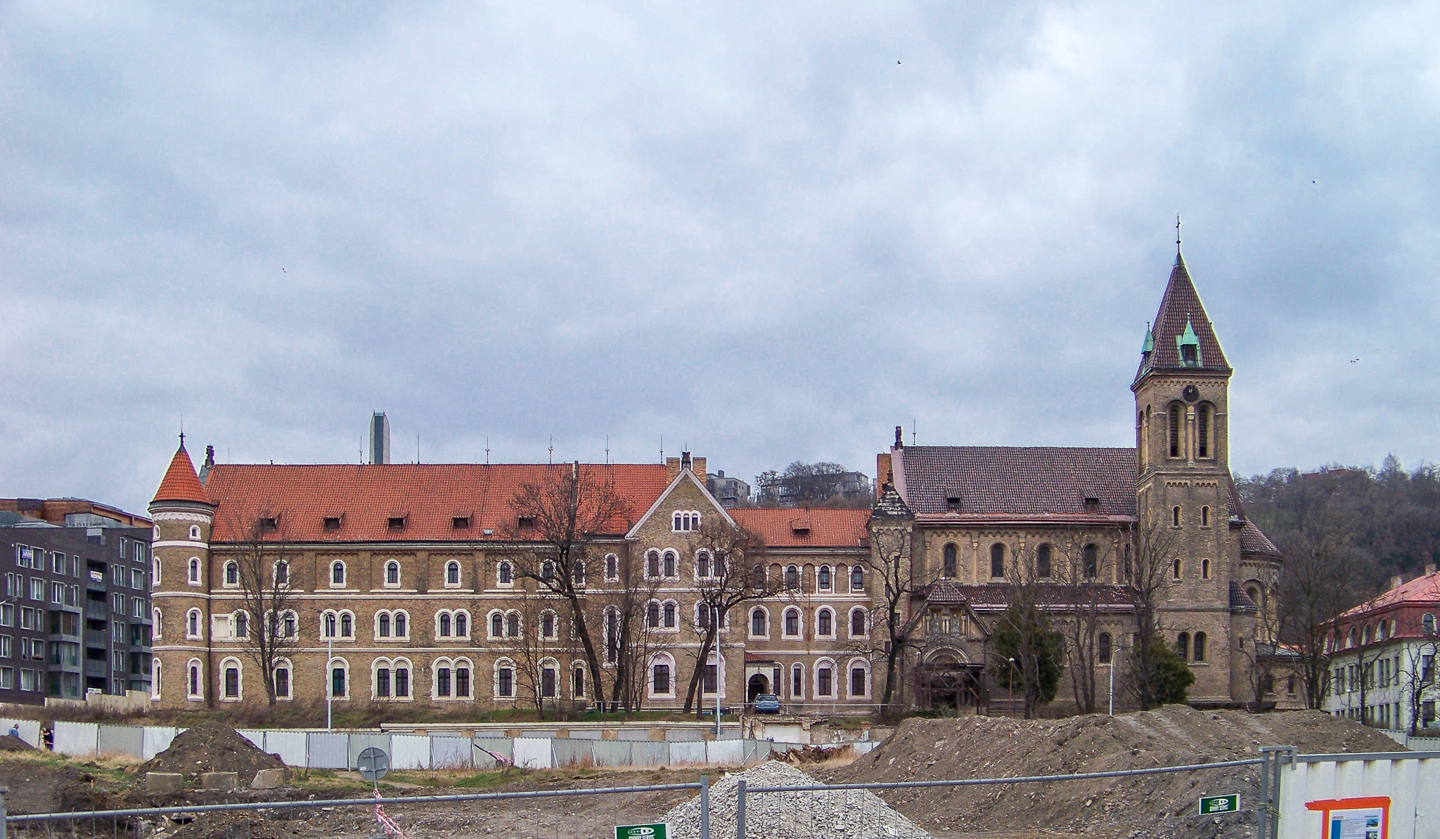 Prague-Smíchov, Czech Republic. Holečkova street, a monastery and church of Saint Gabriel, seen from Kobrova street.